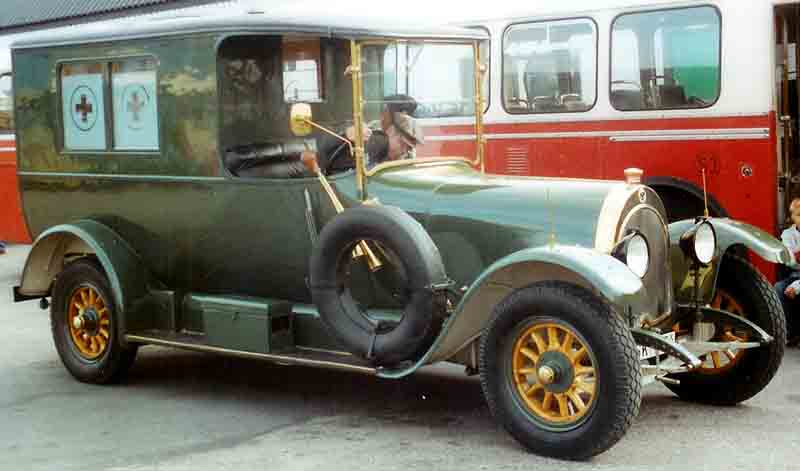 Scania-Vabis Type III Ambulance 1919